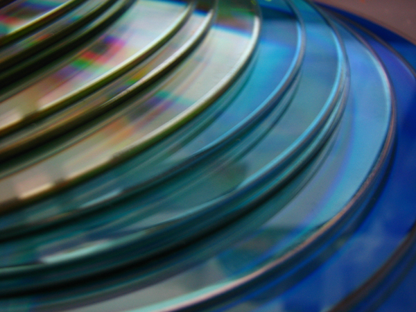 CD stack. Orginal description: Playing with some CD's on my desk.